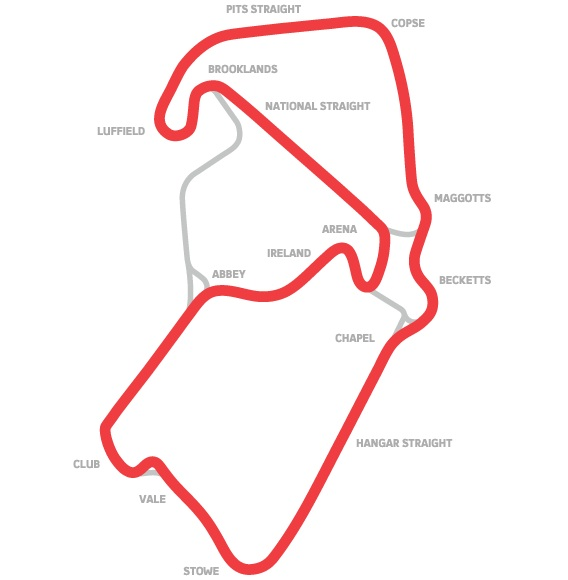 'Arena' Circuit Configuration for Silverstone